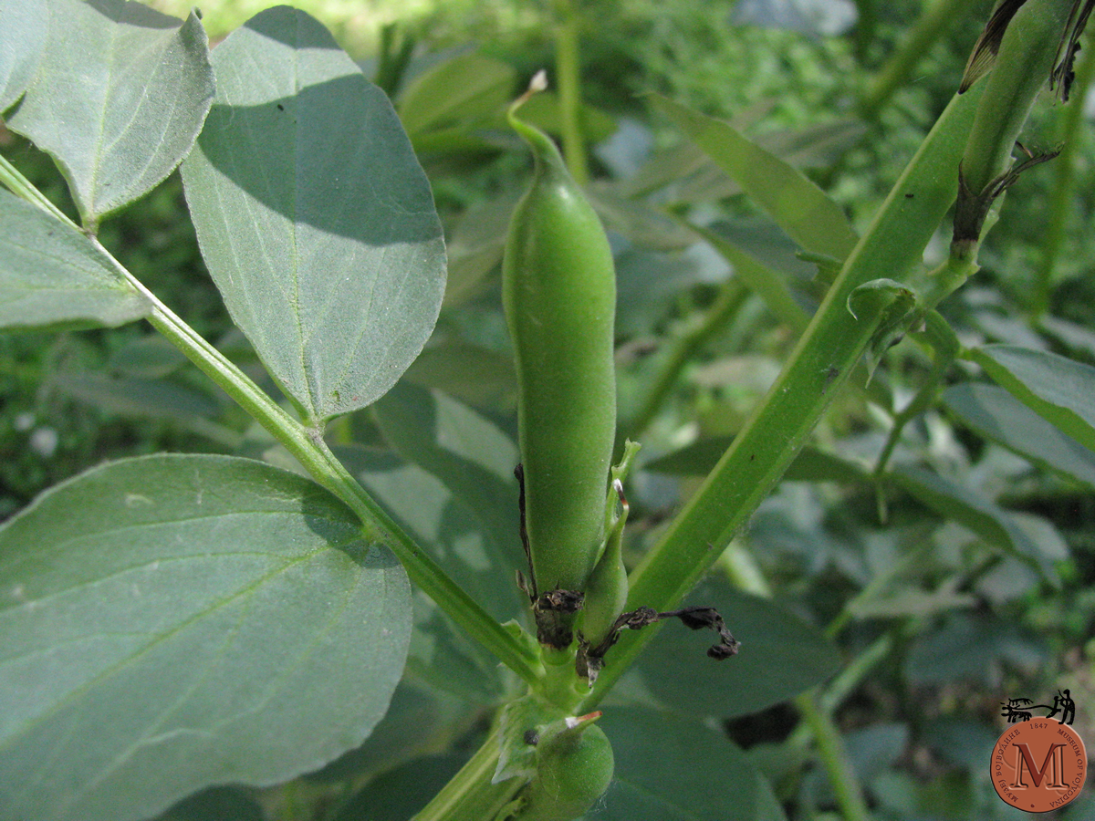 Pod of Vicia faba L in the Archaeobotanical Garden of the Museum of Vojvodina Srpski (latinica): Mahuna boba u Arheobotaničkoj bašti Muzeja Vojvodine